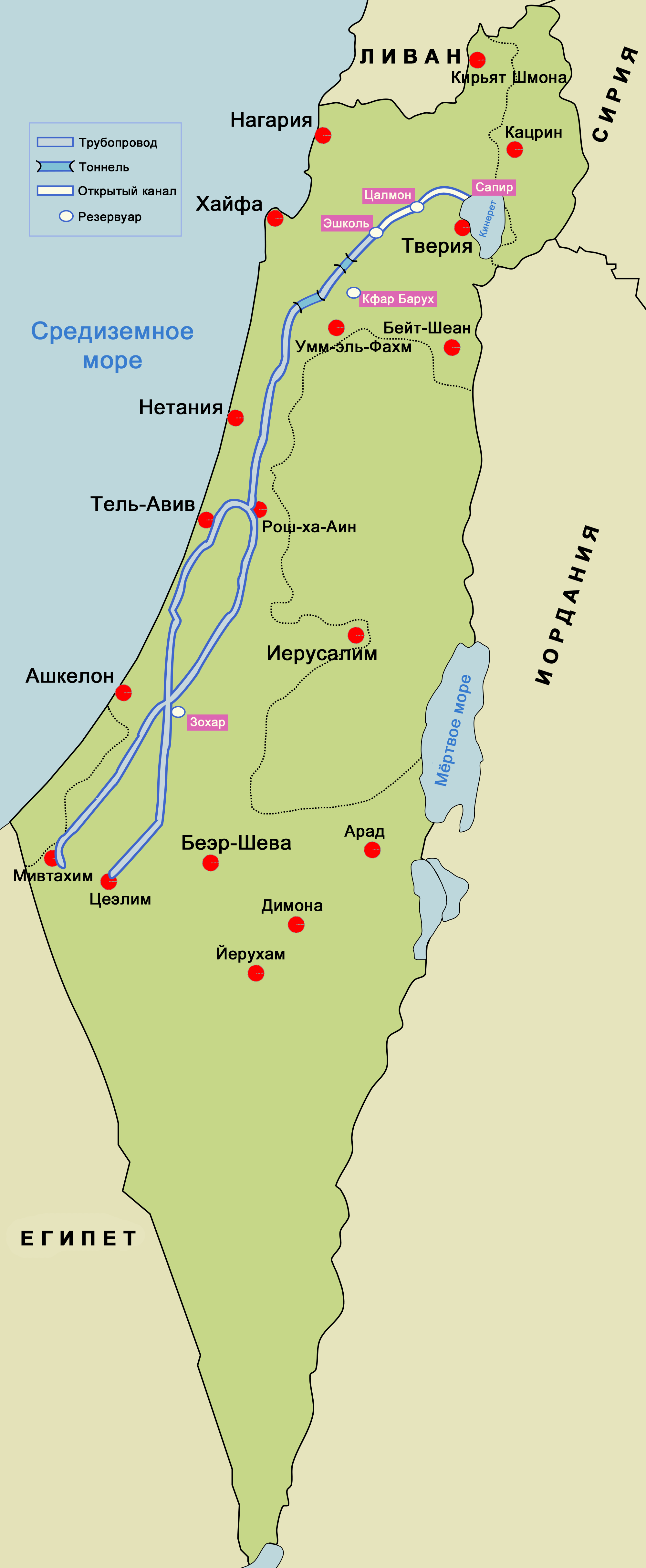 National Water Carrier of Israel (Hebrew: HaMovil HaArtzi)